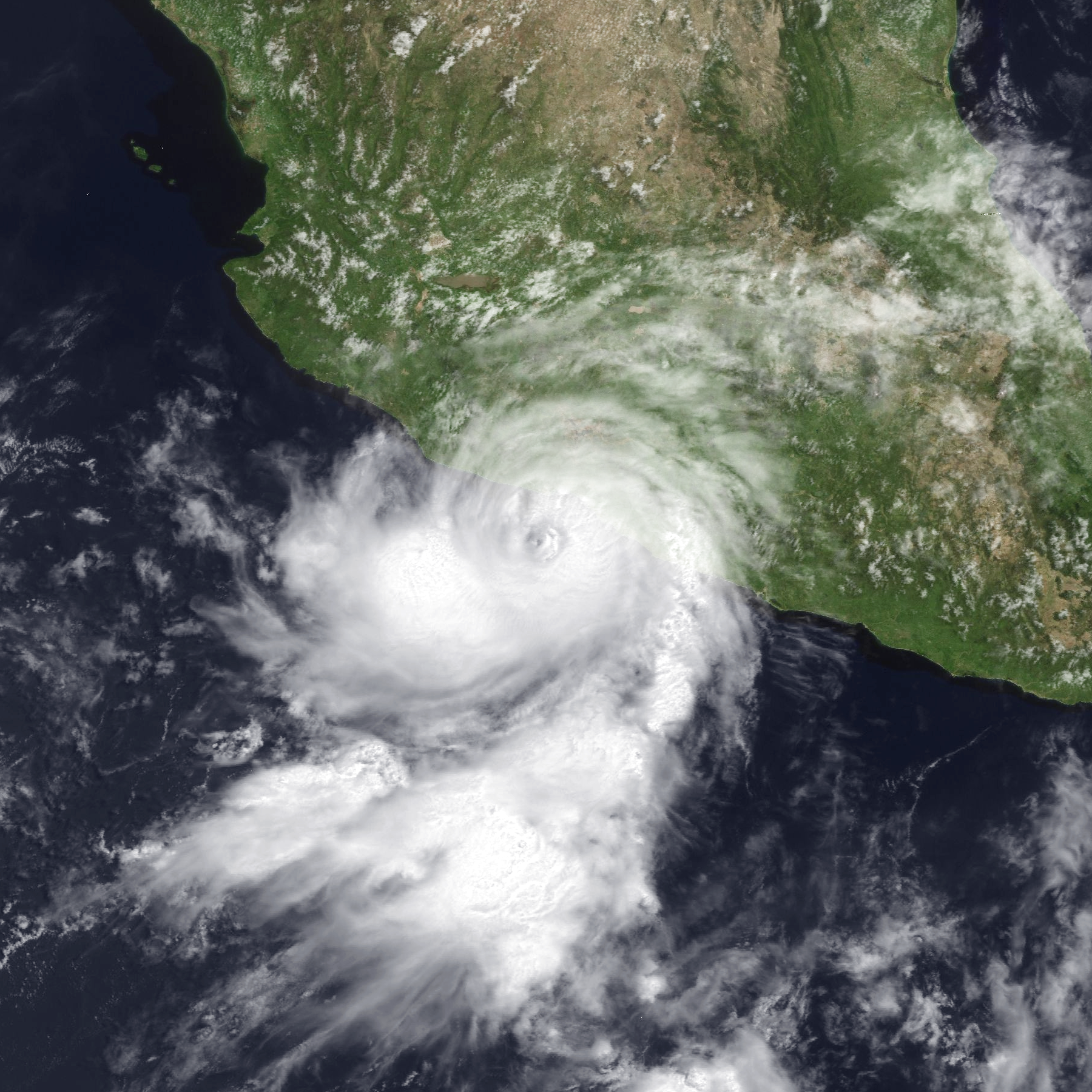 Hurricane Alma at peak intensity near landfall on the southwest coast of Mexico on June 23, 1996